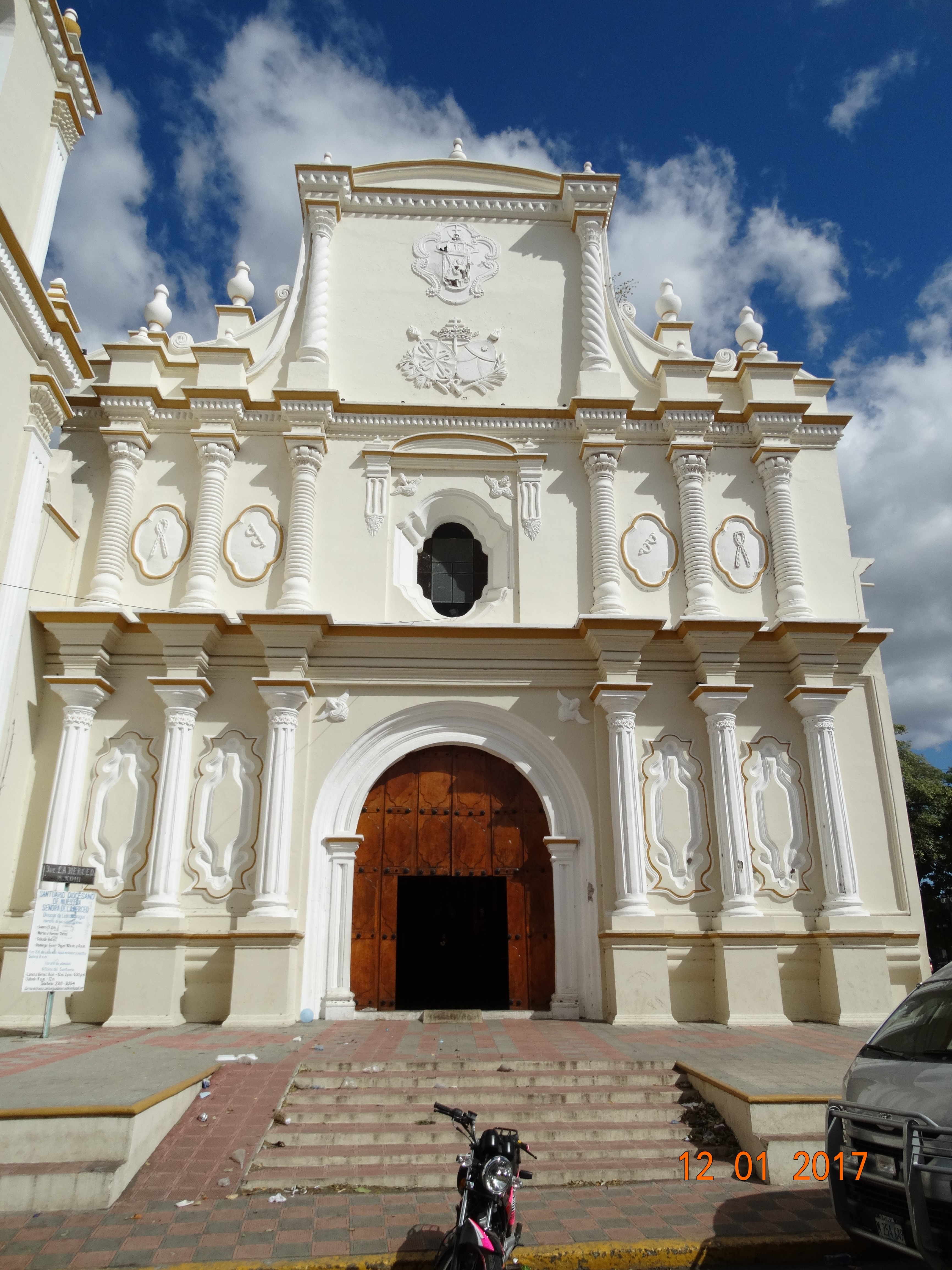 La Merced